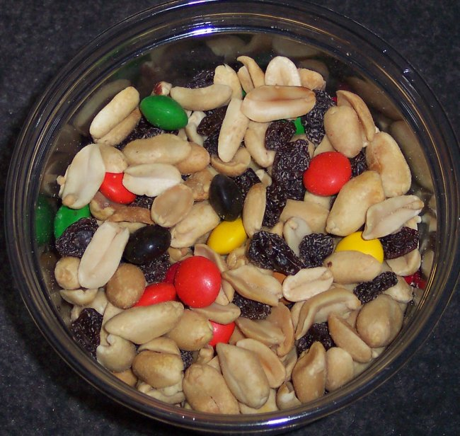 A common variety of gorp (trail mix) made out of peanuts, raisins, and M&Ms.